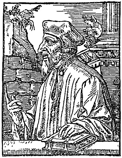 Portrait of John Wycliffe (mid-1320s – 31 December 1384), an English theologian, translator and reformist. Picture originally published in Bale's "Scriptor Majoris Britanniae" (1548).